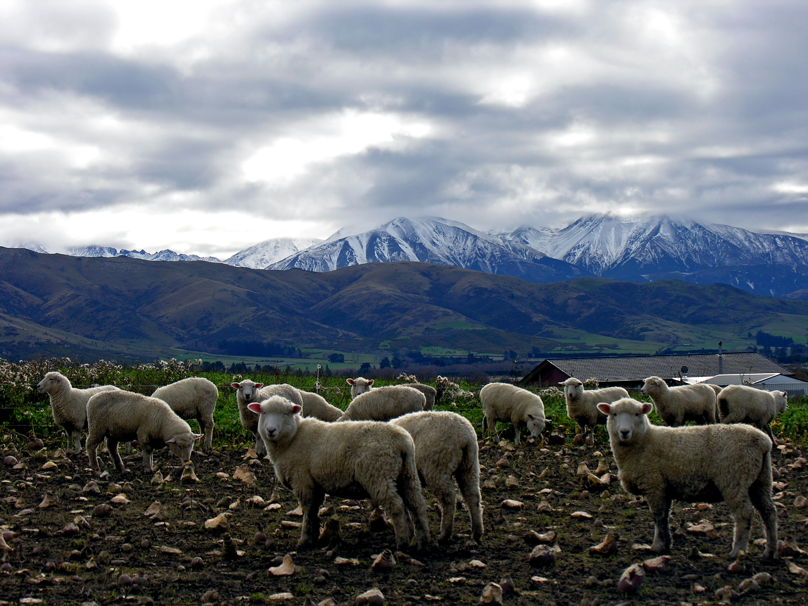 Near Sheffield, Canterbury, New Zealand, 16 May 2006